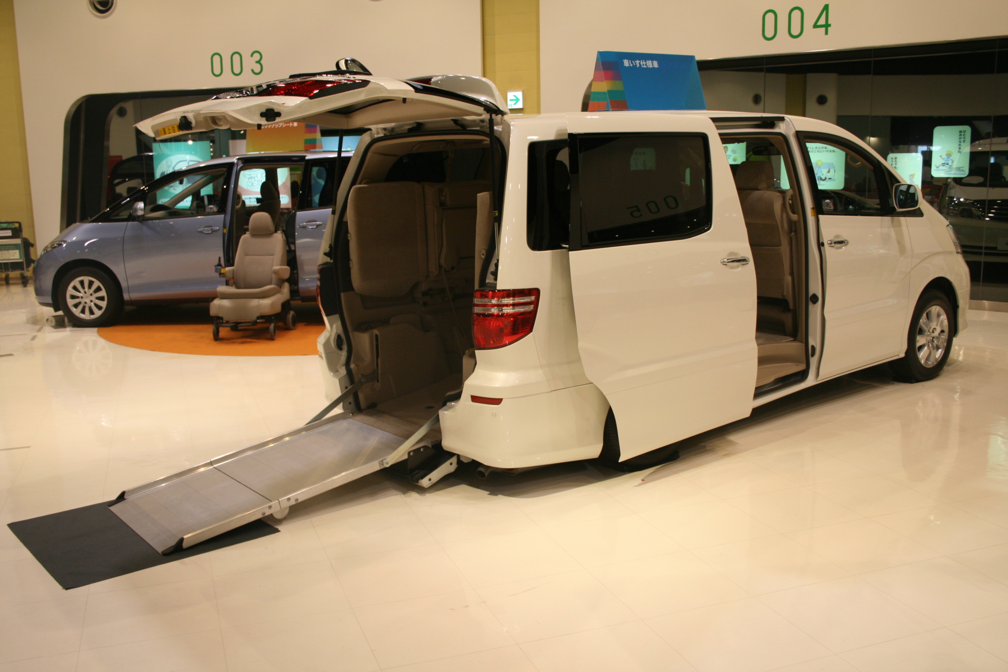 Toyota Alphard 車椅子仕様車